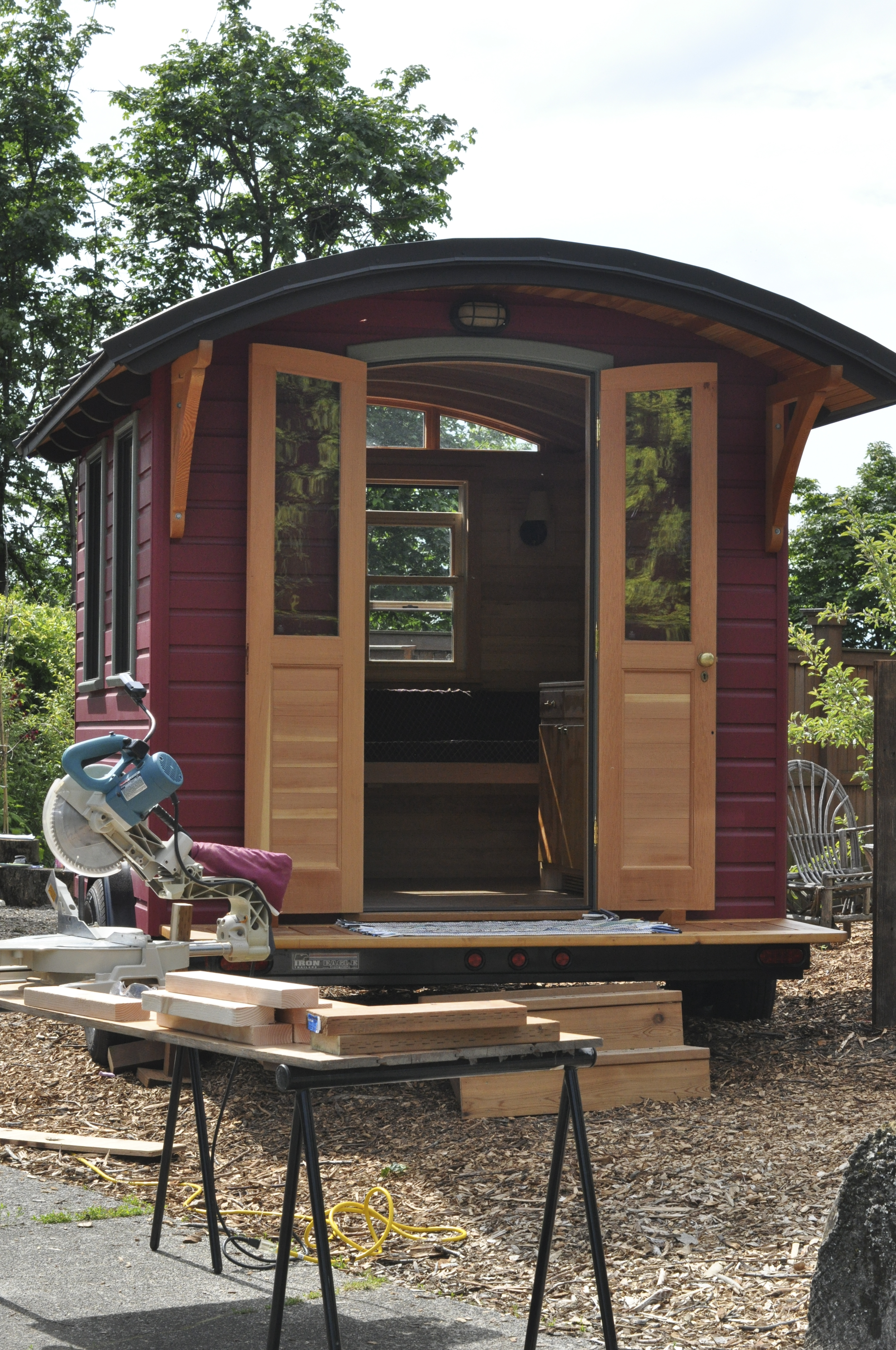 A small, mobile home built at the Portland (Oregon) Alternative Dwellings Little House workshop.